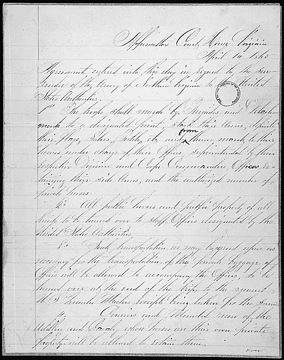 3 page document of the Civil War surrender of the Confederacy under General Robert E. Lee at Appomattox Court House. See also: page 2, page 3. Original note: Although this item was collected by the Record and Pension Office in 1898, it is dated June 10, 1865.